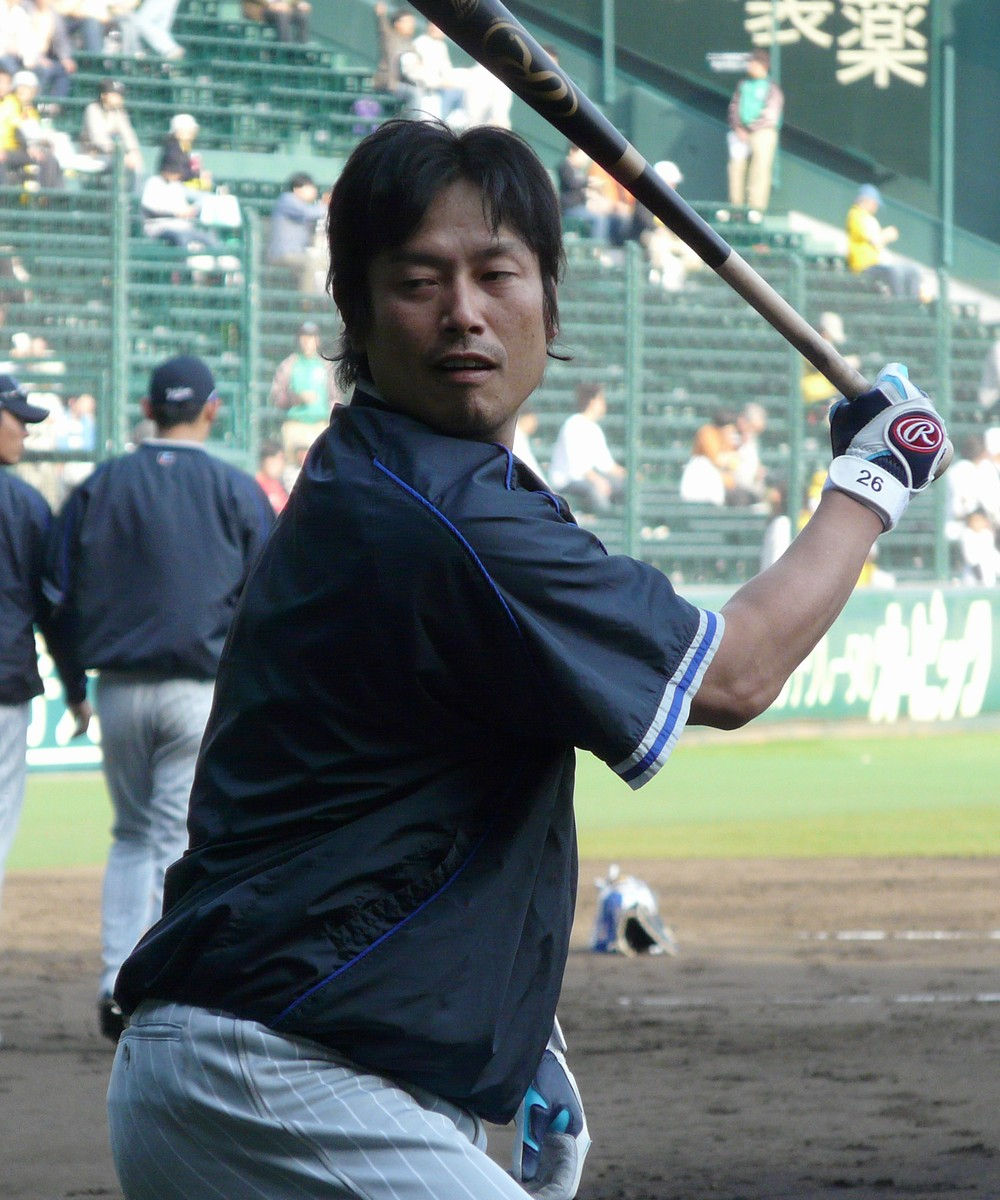 Takahiro Saeki, infielder of the Yokohama BayStars, at Hanshin Koshien Stadium.